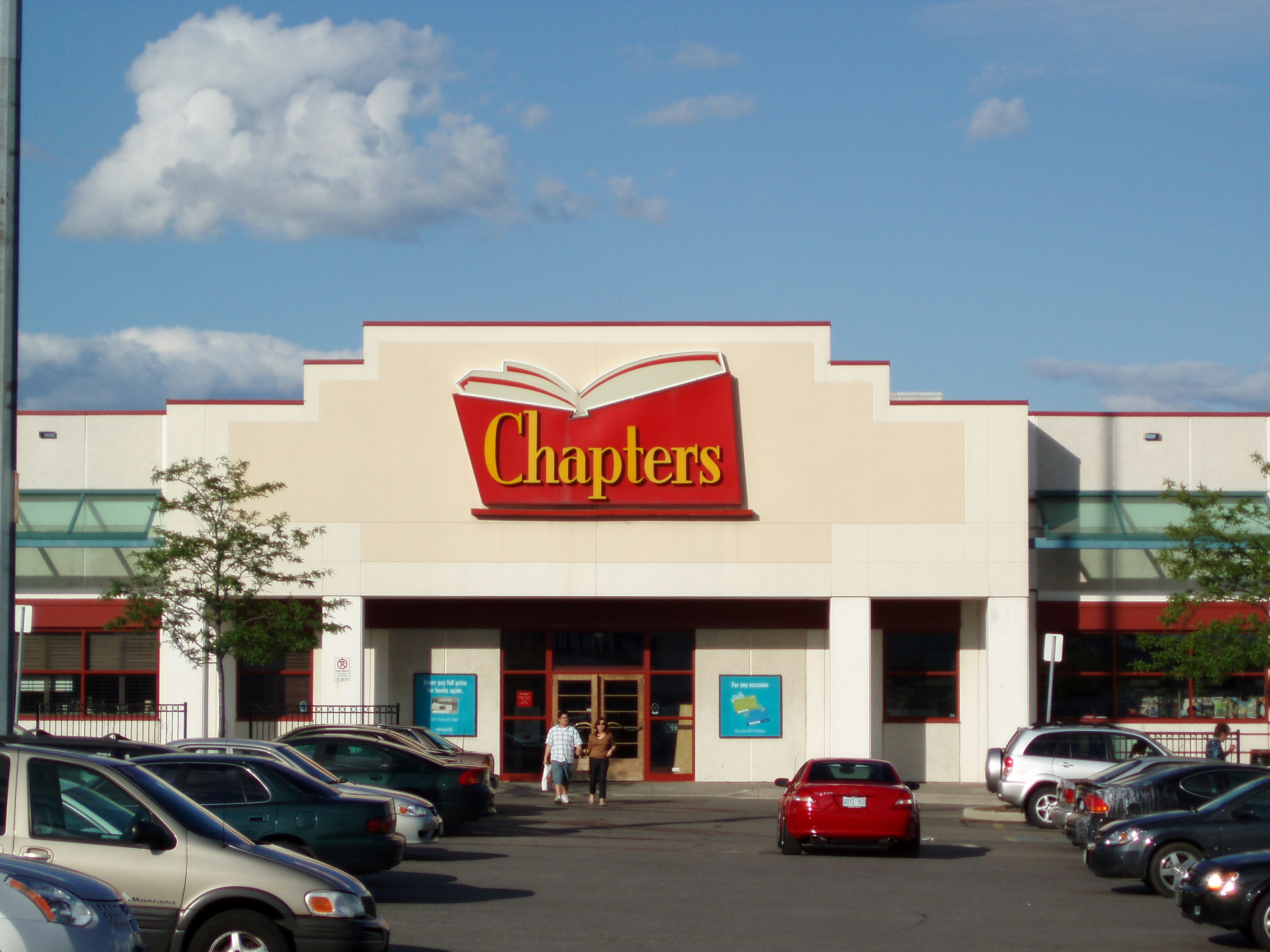 Chapters in Markham